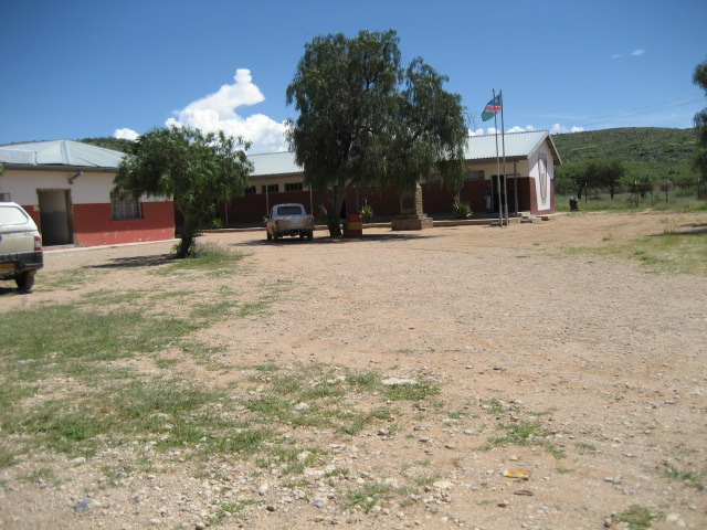 The local Junior Secondary School in Rietoog Namibia